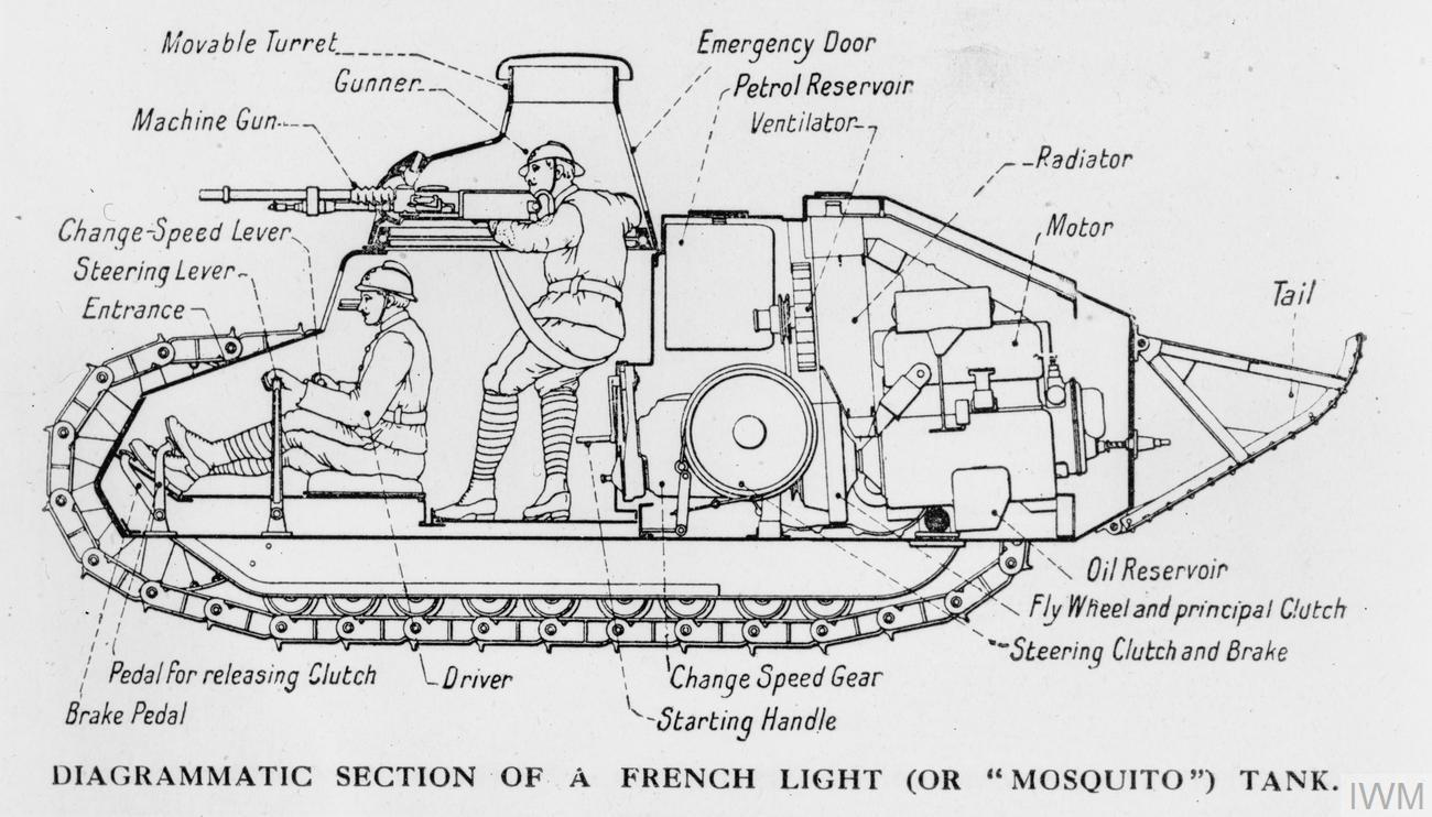 Diagram of internal Layout of French Renault FT-17 Char Mitrailleur "Mosquito" Tank, 1918.